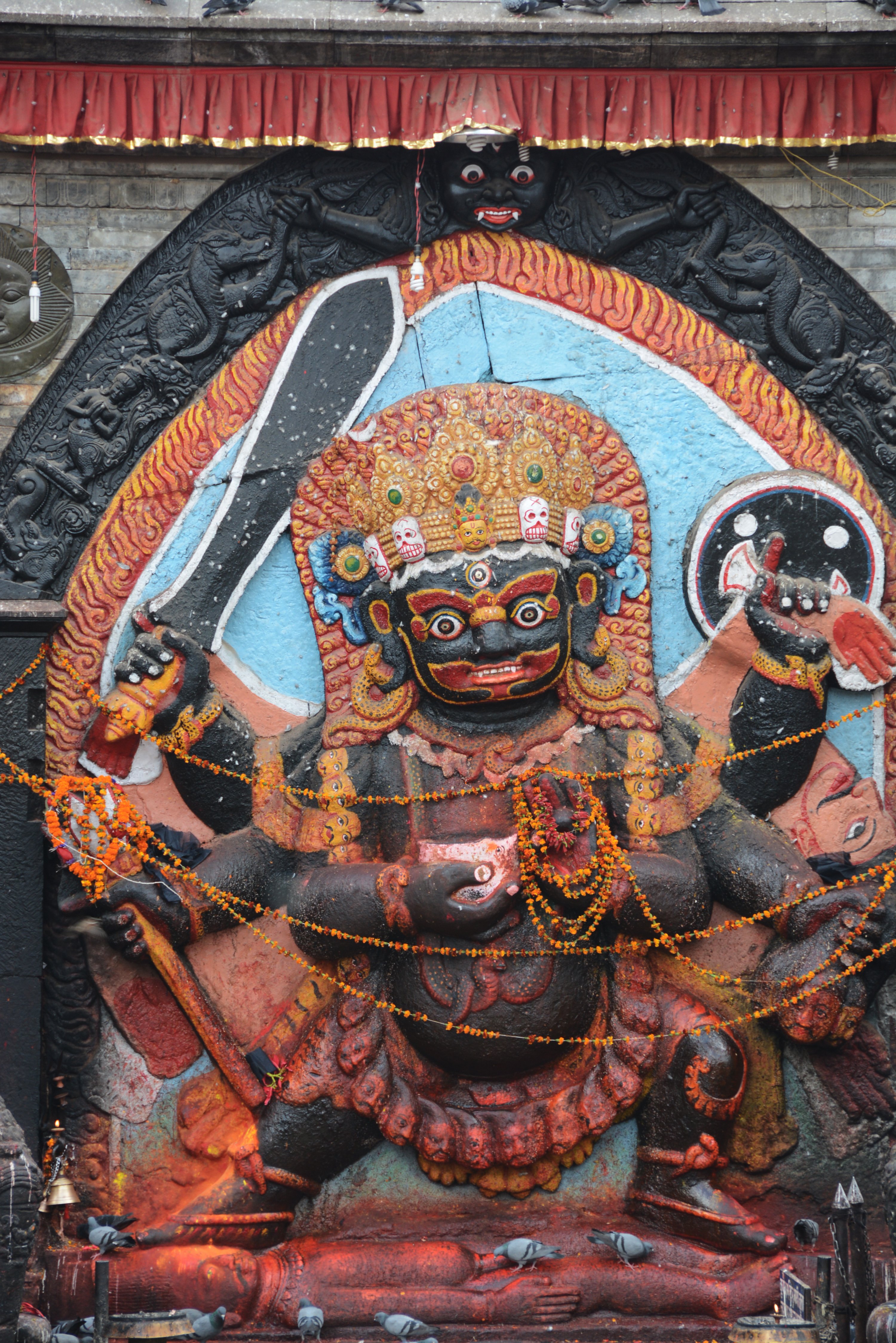 Kaal Bhairab, Kathmandu, Nepal